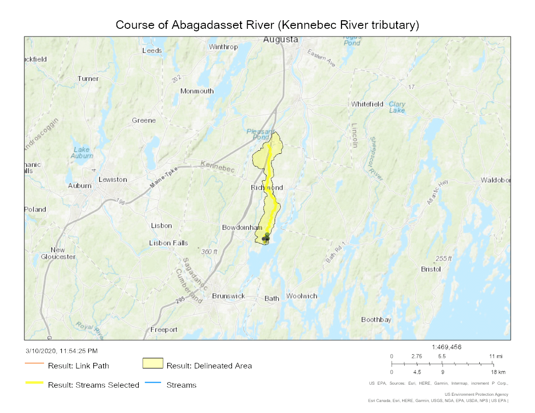 Map of the course of Abagadasset River (Kennebec River tributary) in Kennebec and Sagadhoc Counties, Maine.